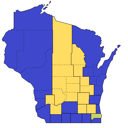 Map of the partisan makeup of the Wisconsin Senate in 1852 Democratic: 12 seats Free Soil: 1 seat Whig: 6 seats